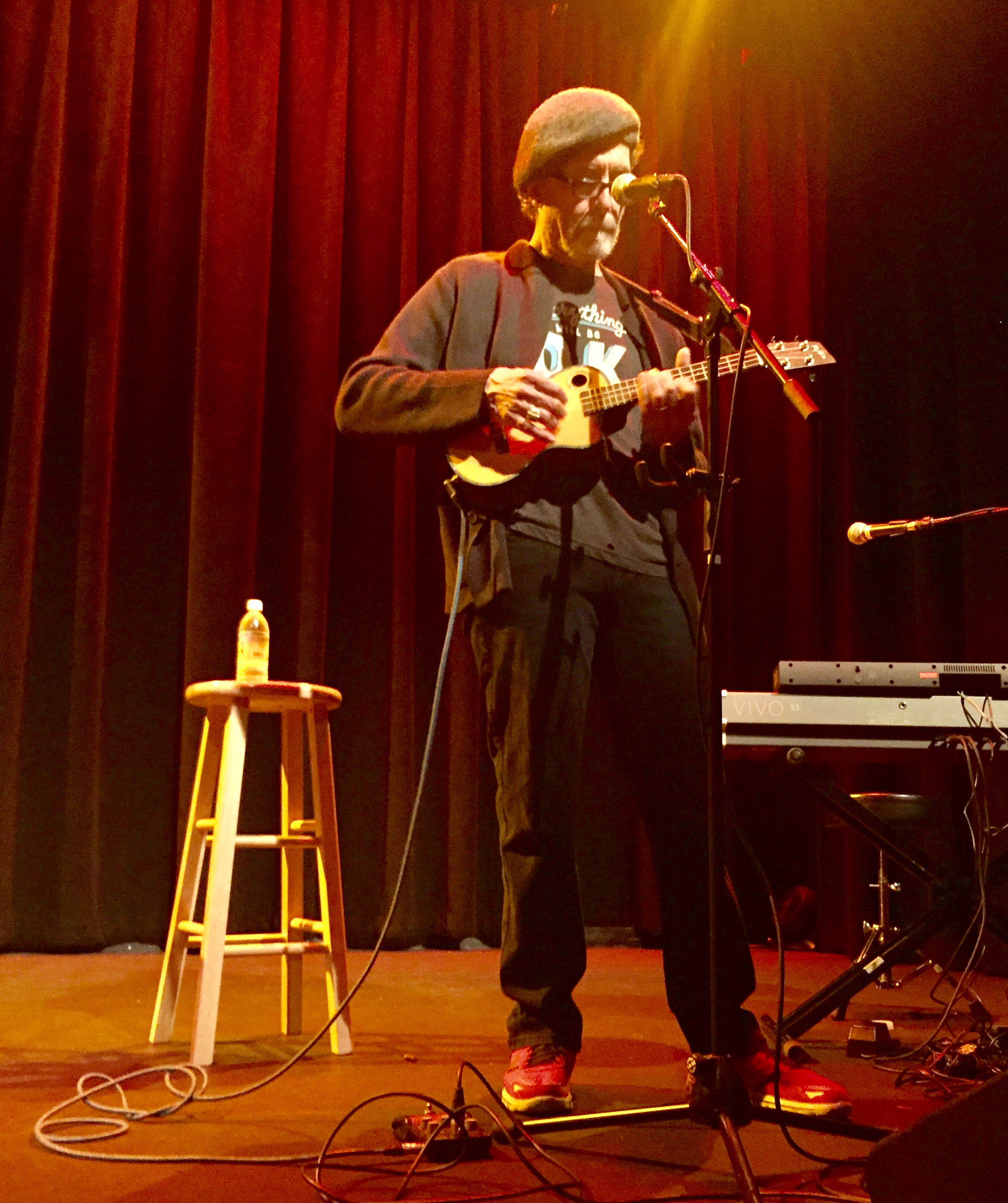 Picture from Sellersville Show in 2019